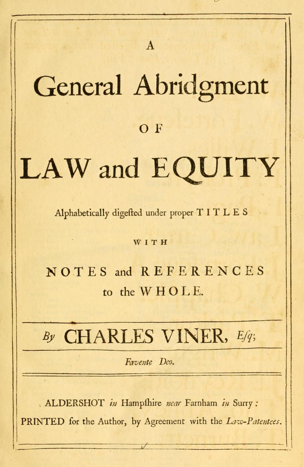 Title page of 'A General Abridgment of Law and Equity' by Charles Viner - published and printed at Aldershot in Hampshire in the 18th-century